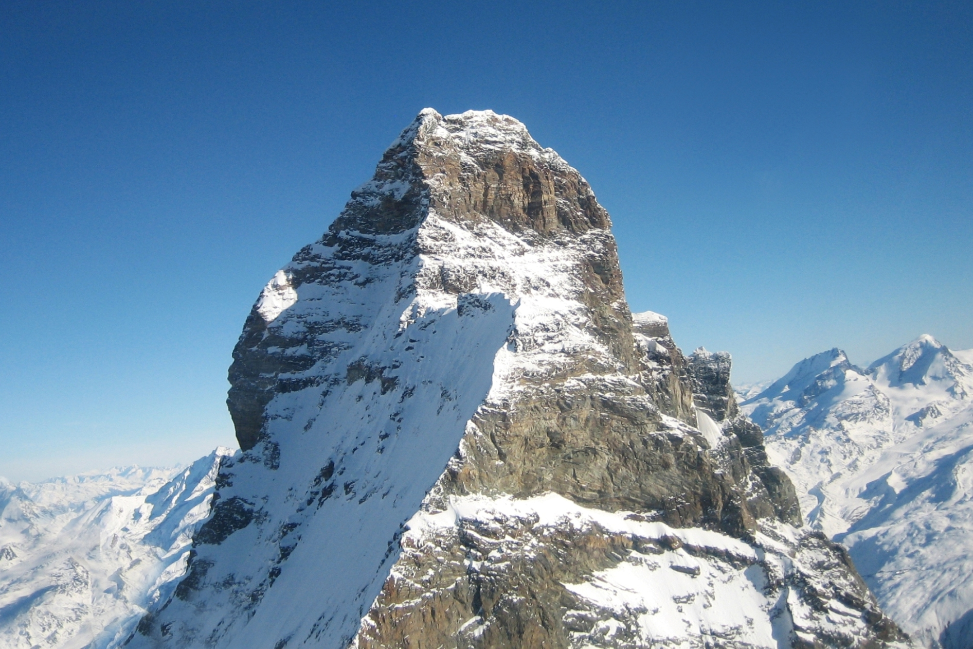 Matterhorn from the south-west